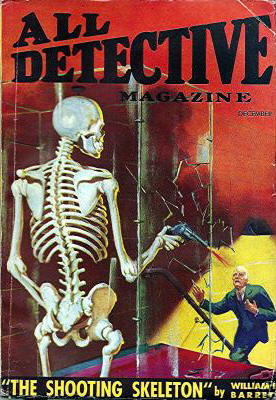 All Detective, December 1934